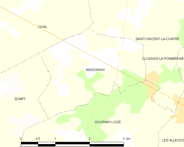 Map of French municipality Maisonnay